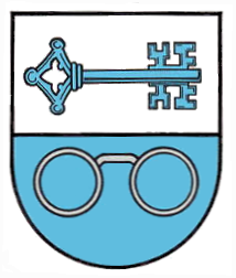 Coat of arms of Hochdorf-Assenheim